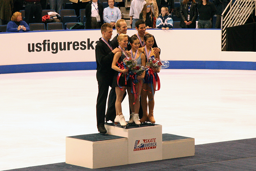 The pairs podium at the 2006 Skate America. Left to right: Dorota Siudek (née: Zagórska) and Mariusz Siudek (silver); Rena Inoue and John Baldwin (gold); Naomi Nari Nam and Themistocles Leftheris (bronze).